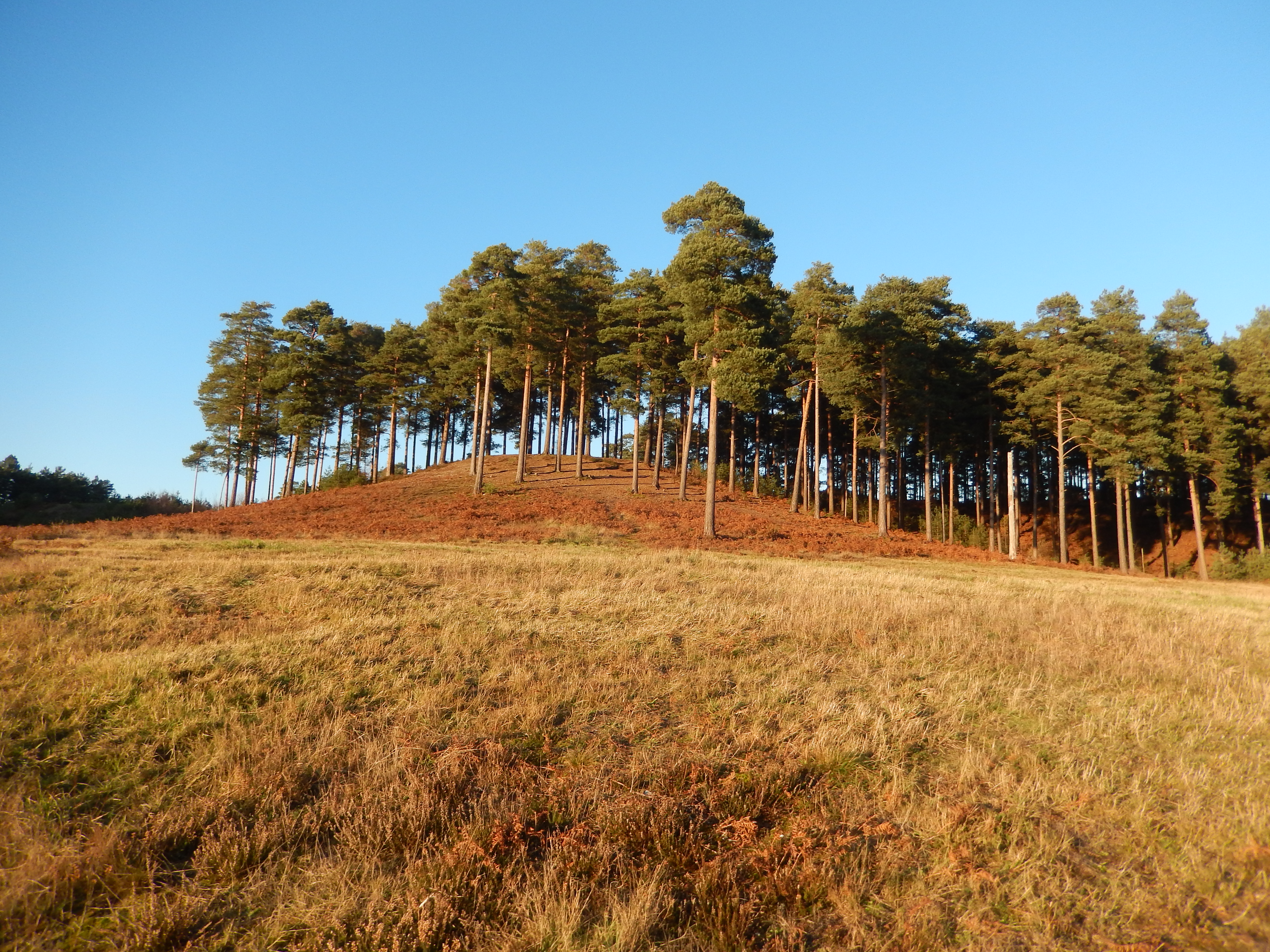 Wooded hill in Bourne Wood, Farnham, Surrey.